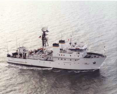 USNS Stalwart (from US Navy website)